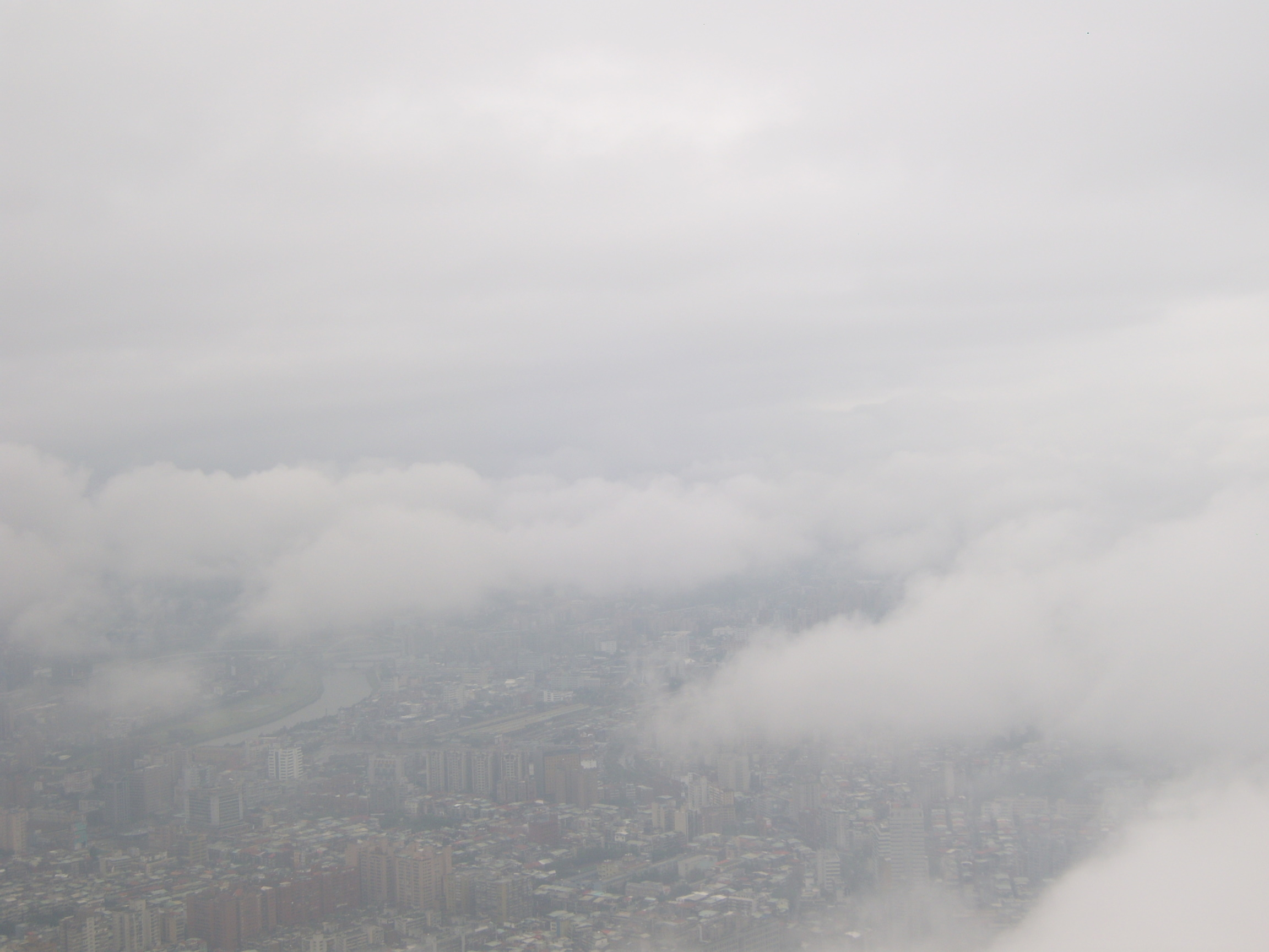 2010 Taipei 101 Run Up: Misty weather. (From 91F scale)